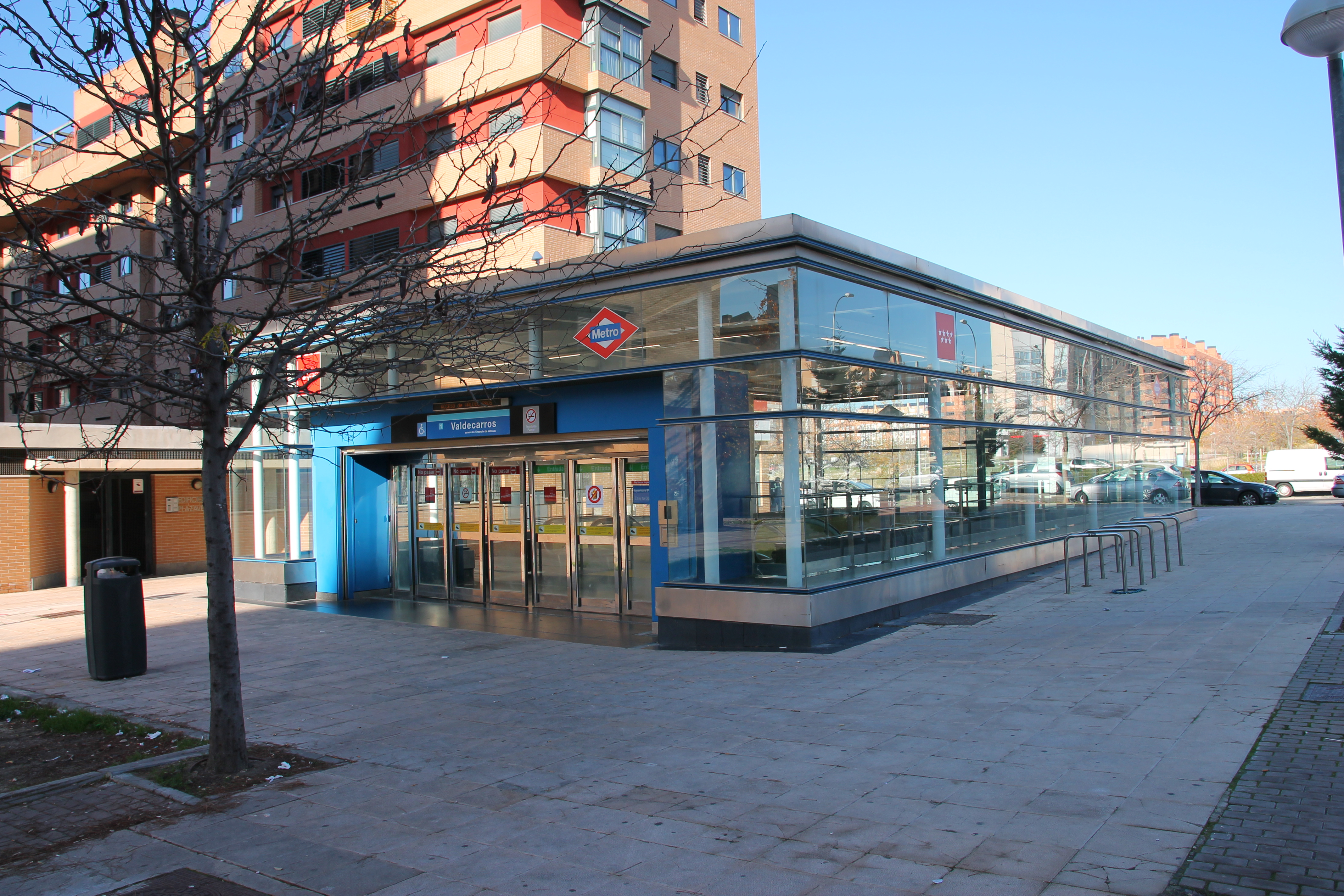 Estación de Valdecarros